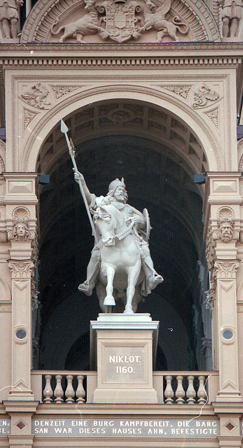 Niklot statue at Schwerin castle, Mecklenburg-Vorpommern, Germany